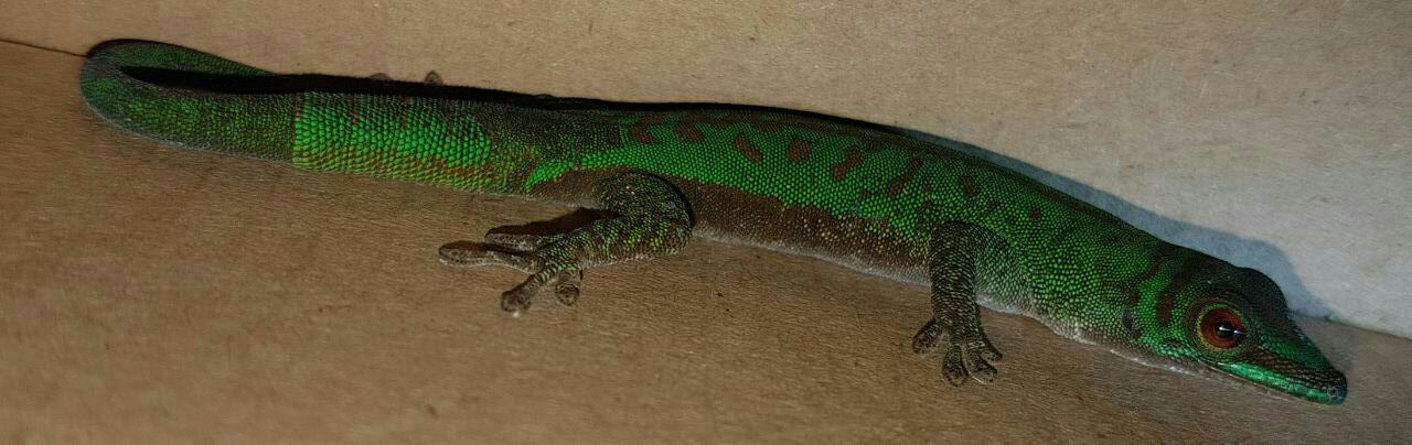 Phelsuma astriata showing change in colouration after exposure to light. Praslin, Seychelles. Photo taken by Cheryl Allen.